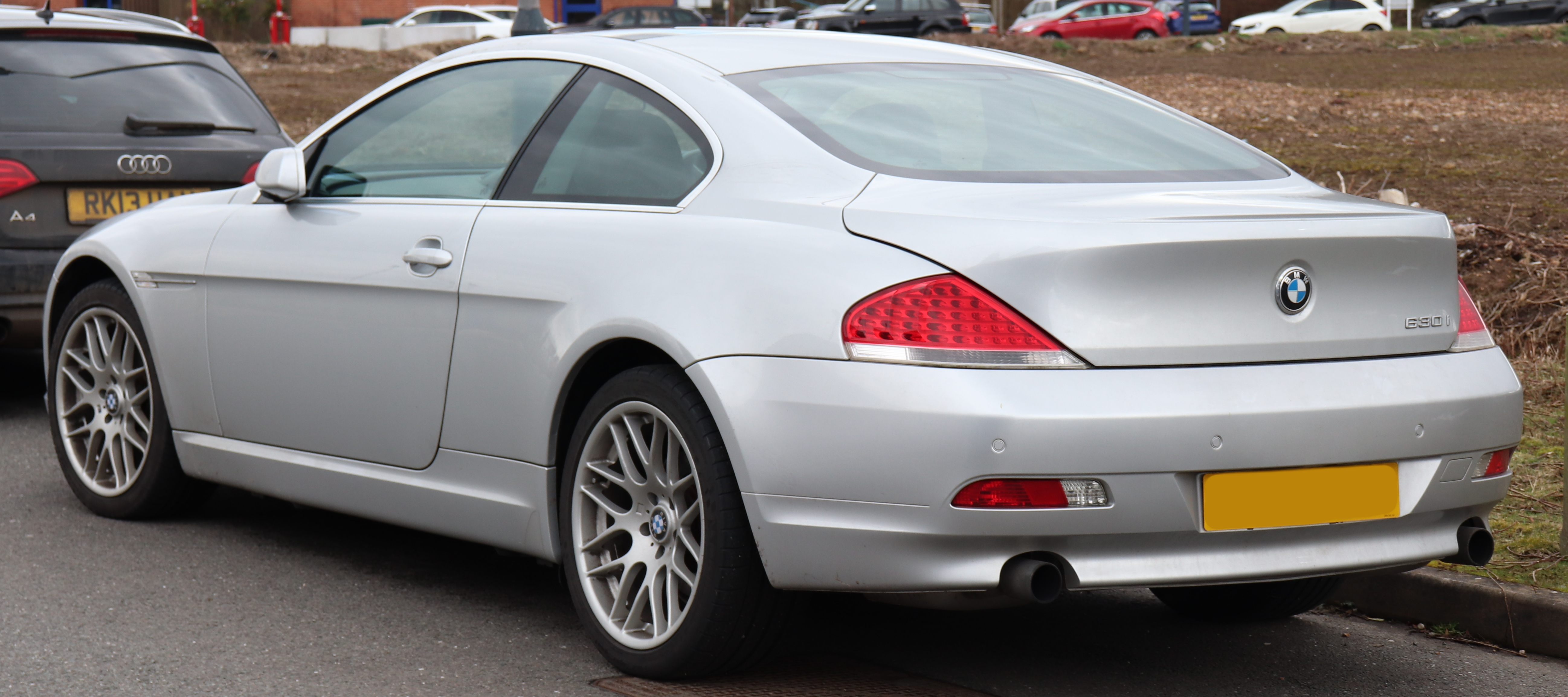 2006 BMW 630i Automatic 3.0 Rear Taken in Leamington Spa